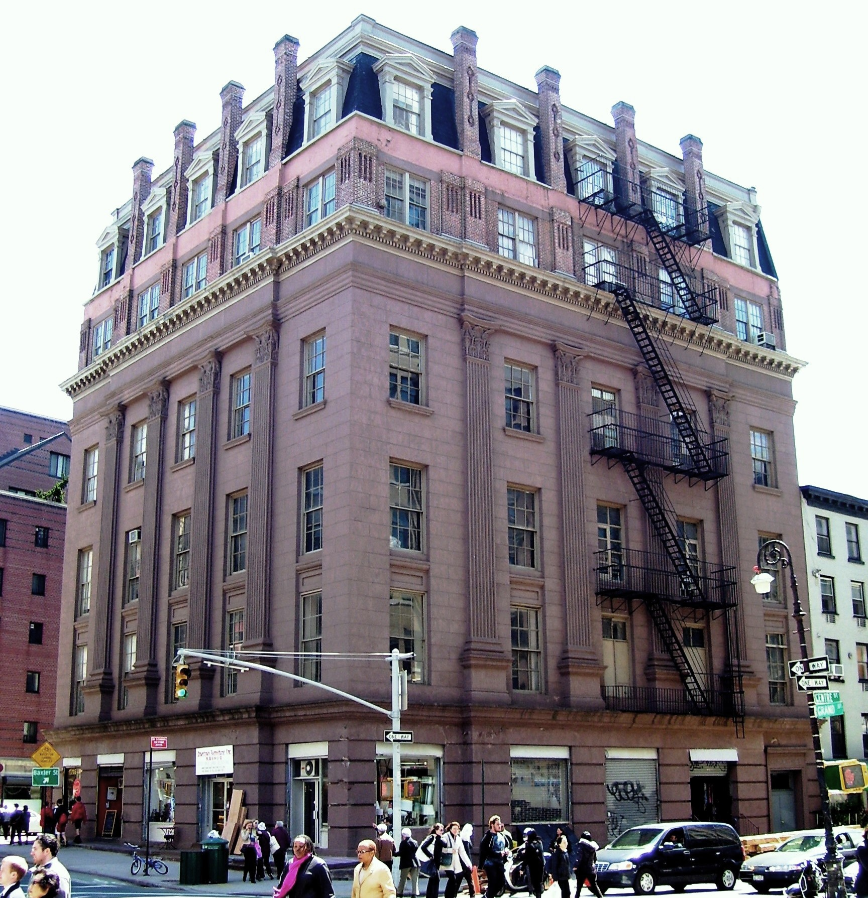 The Odd Fellows Hall, at 165-171 Grand Street between Centre and Baxter Streets, on the borders of the Nolita, Little Italy and Chinatown neighborhoods of Manhattan, New York City, was built in 1847-48 and designed by the firm of Tench & Snook in the Italianate style, one of the city's earliest structures in this style, which Joseph Ttench had introduced with his design for the A. T. Stewart store in 1845. (His partner Snook was responsible for many nearby cast-iron buildings.) The mansard roof was an addition, designed by John Buckingham and built in 1881-82. The Od Fellows used the building until the 1880s, when they moved uptown with the city's population. The building was afterwards converted to commercial and industrial use, and is now residential condominiums. (Sources: Guie to NYC Landmarks (4th ed.) and AIA Guide to NYC (4th ed.))